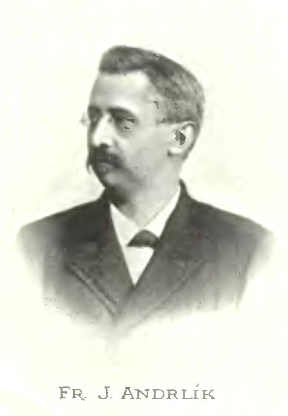 Portrait of František Josef Andrlík (1852-1939), Czech writer.